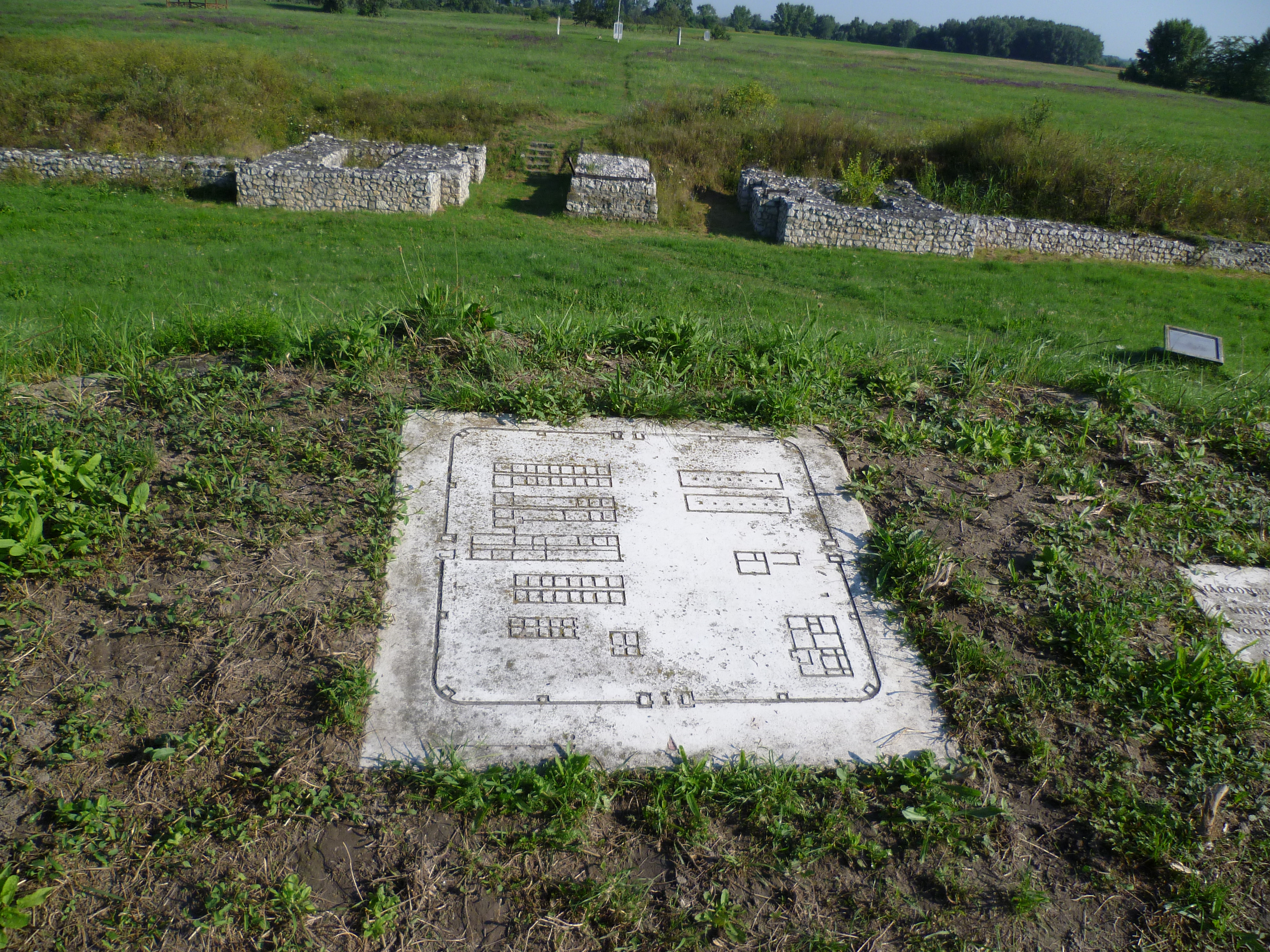 View of the Celemantia (Kelemantia) castellum in Slovakia